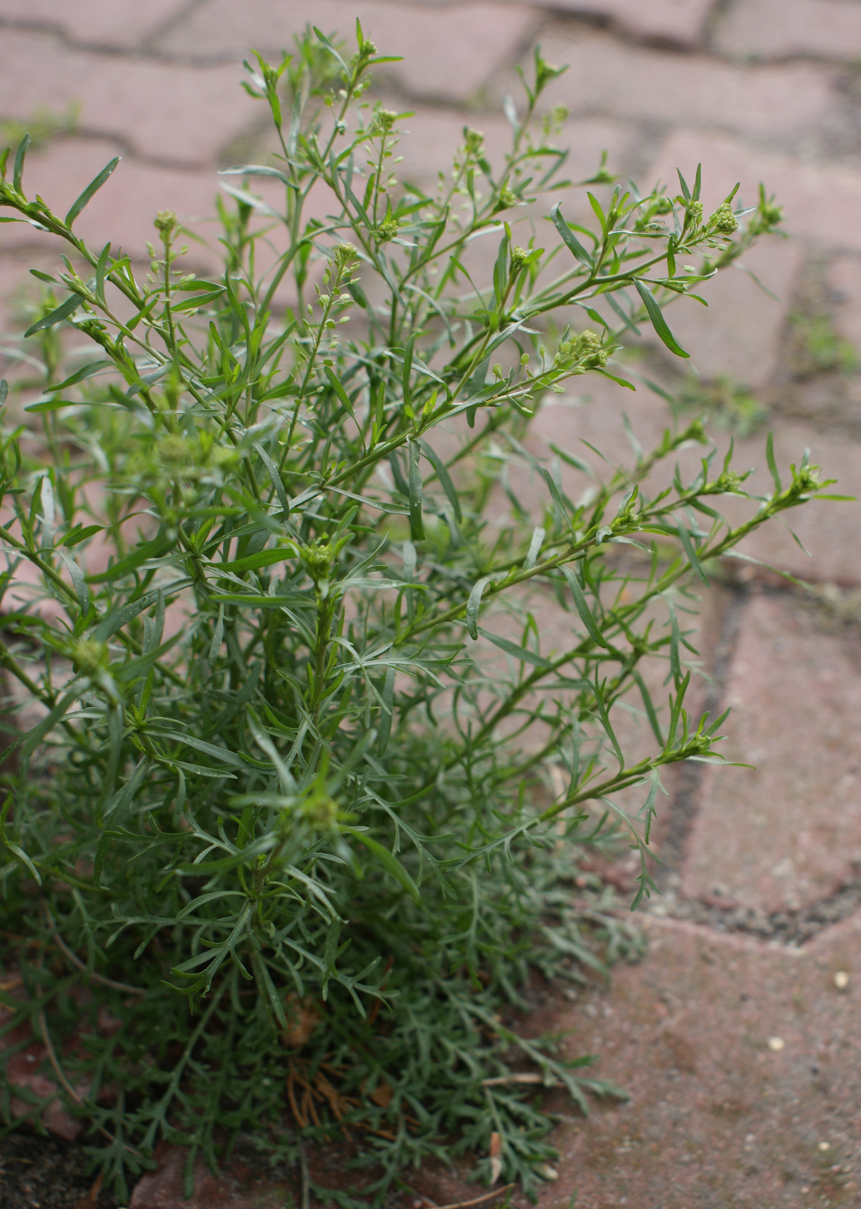 Lepidium ruderale